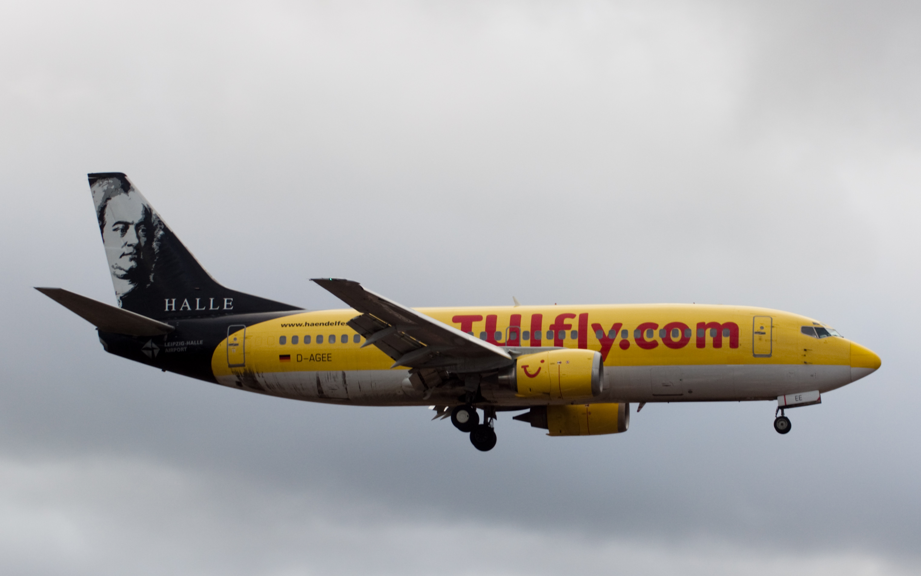 TUIfly Halle c/s